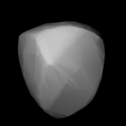 3D convex shape model of 1600 Vyssotsky, computed using light curve inversion techniques. J. Hanuš, J. Ďurech, M. Brož, B. D. Warner (June 2011). "A study of asteroid pole-latitude distribution based on an extended set of shape models derived by the lightcurve inversion method". Astronomy and Astrophysics 530: A134. ISSN 0004-6361. arXiv